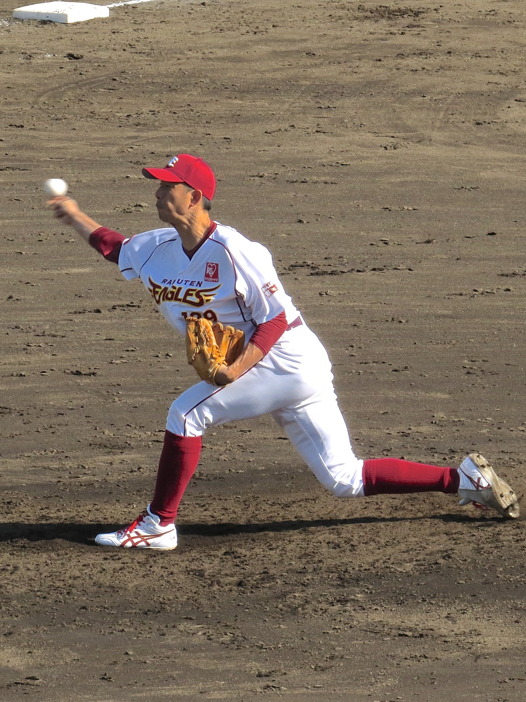 Tomohiro Umetsu, pitcher of the Tohoku Rakuten Golden Eagles, at Saitama Municipal Urawa Baseball Stadium.